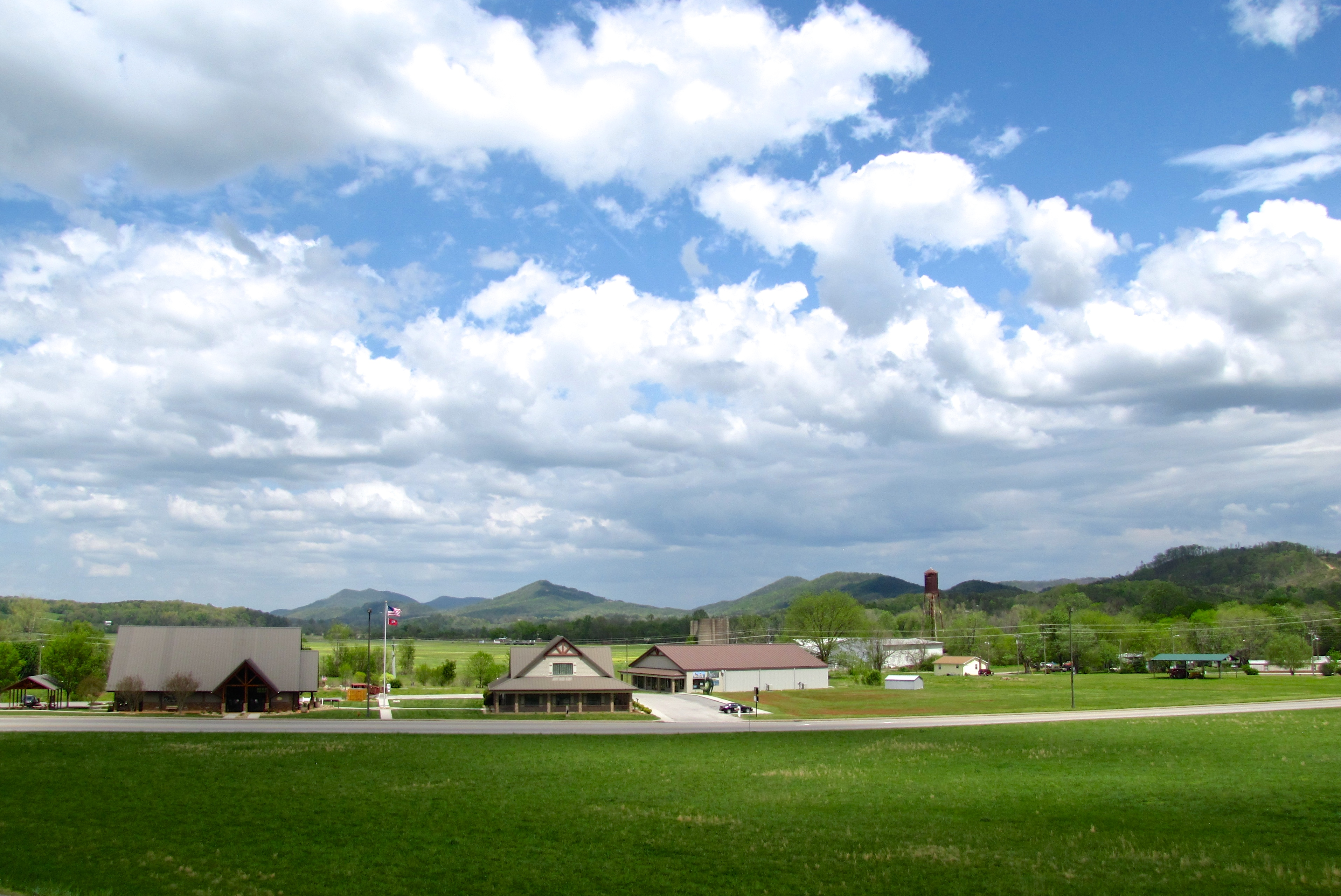 Tellico Plains, Tennessee, United States, looking northeast from 2nd Street. The Cherohala Skyway Visitor Center and Charles Hall Museum are below.